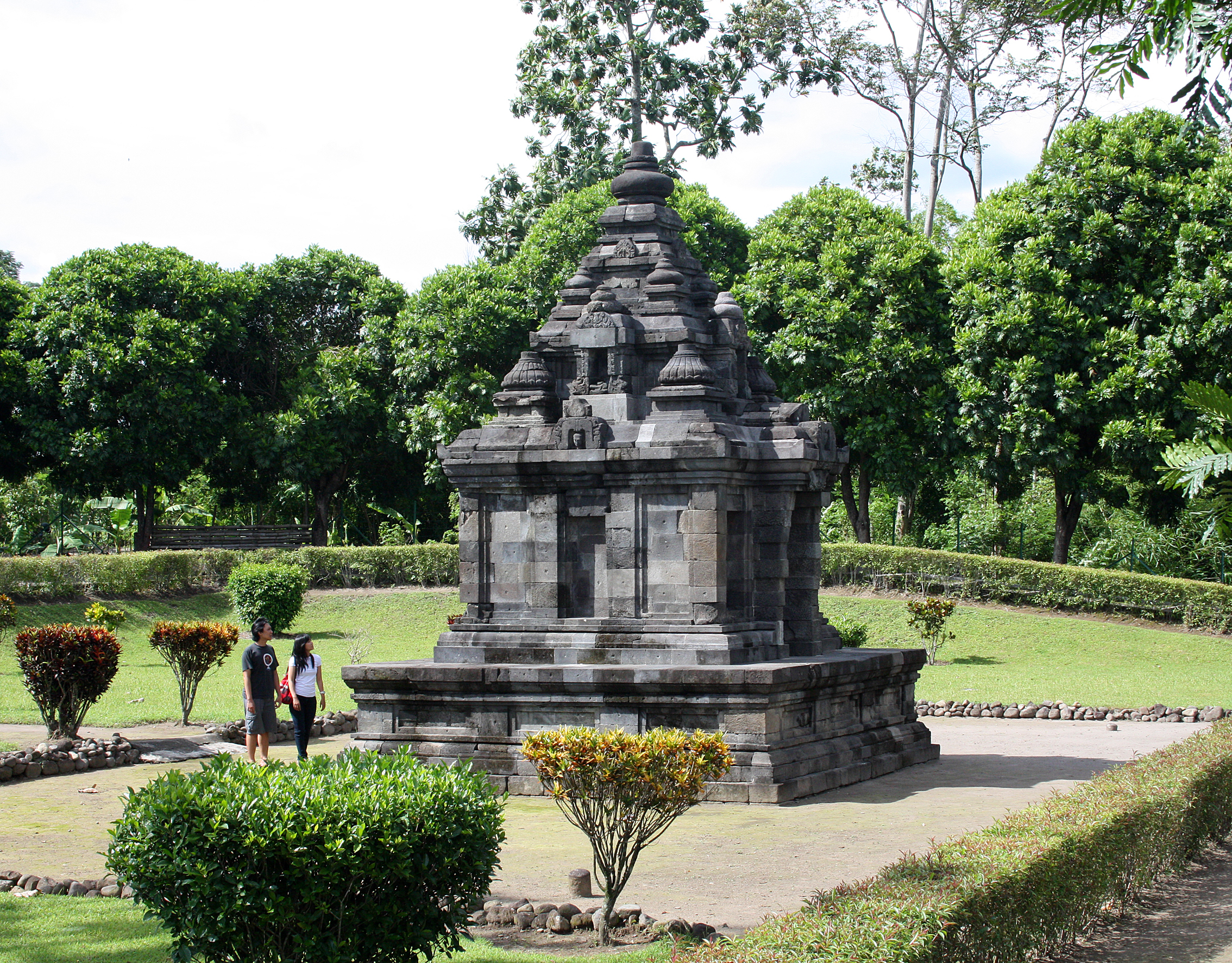 Gebang temple is an 8th century Hindu temple, from Medang Mataram kingdom period. The temple is located at the outskirt of Yogya city, near the northeastern ringroad. Gebang village, Wedomartani, Ngemplak, Sleman, Yogyakarta, Indonesia.